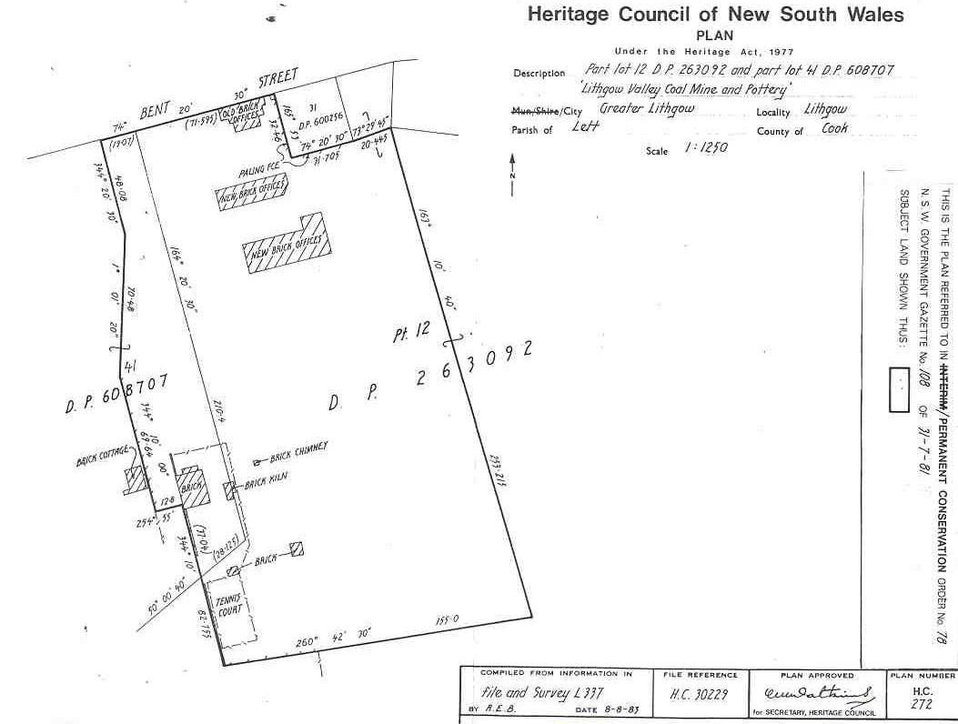 Lithgow Valley Colliery and Pottery Site: PCO Plan Number 078